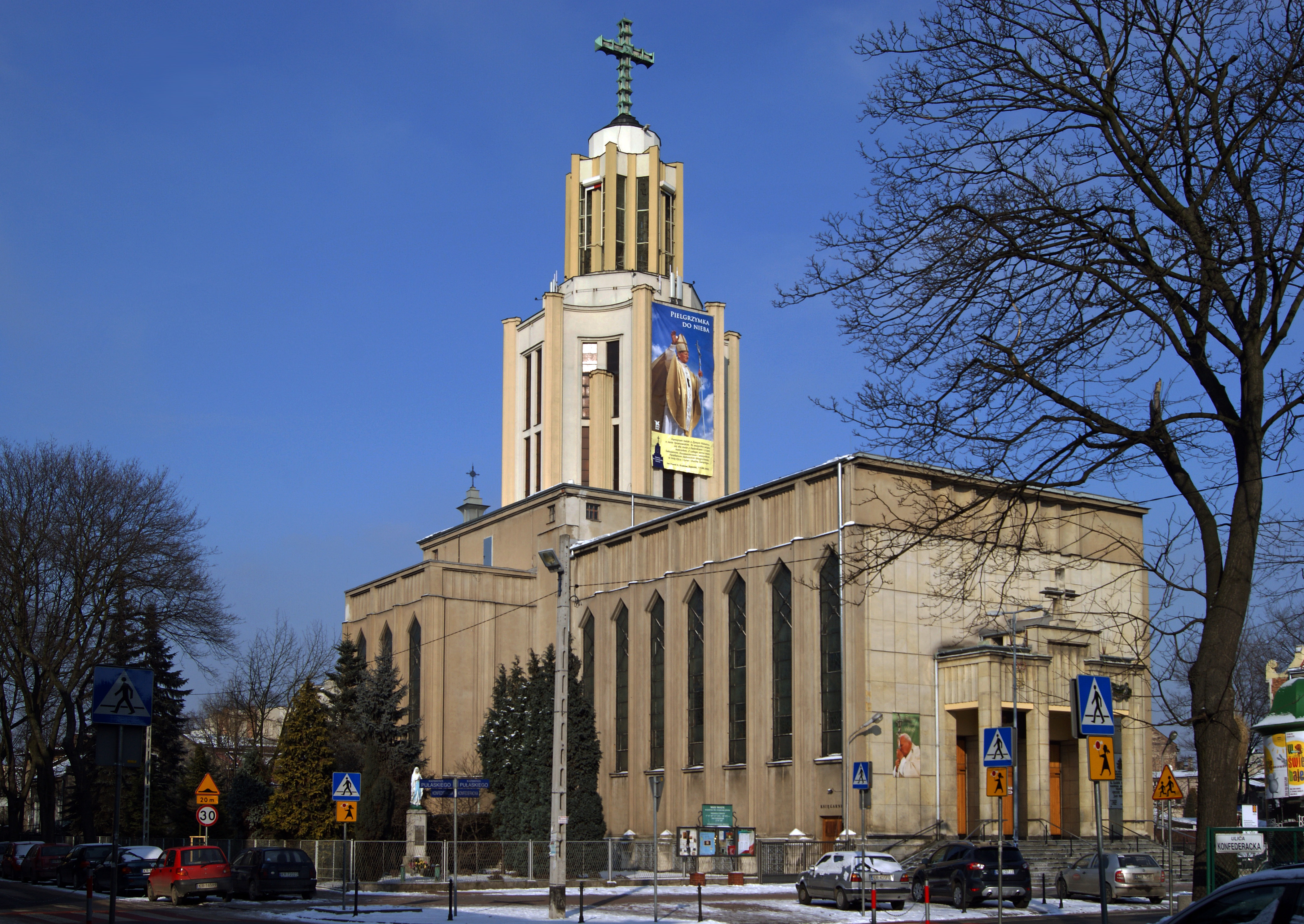 StStanislaus Kostka Church, 6 Konfederacka street,Debniki,Krakow,Poland